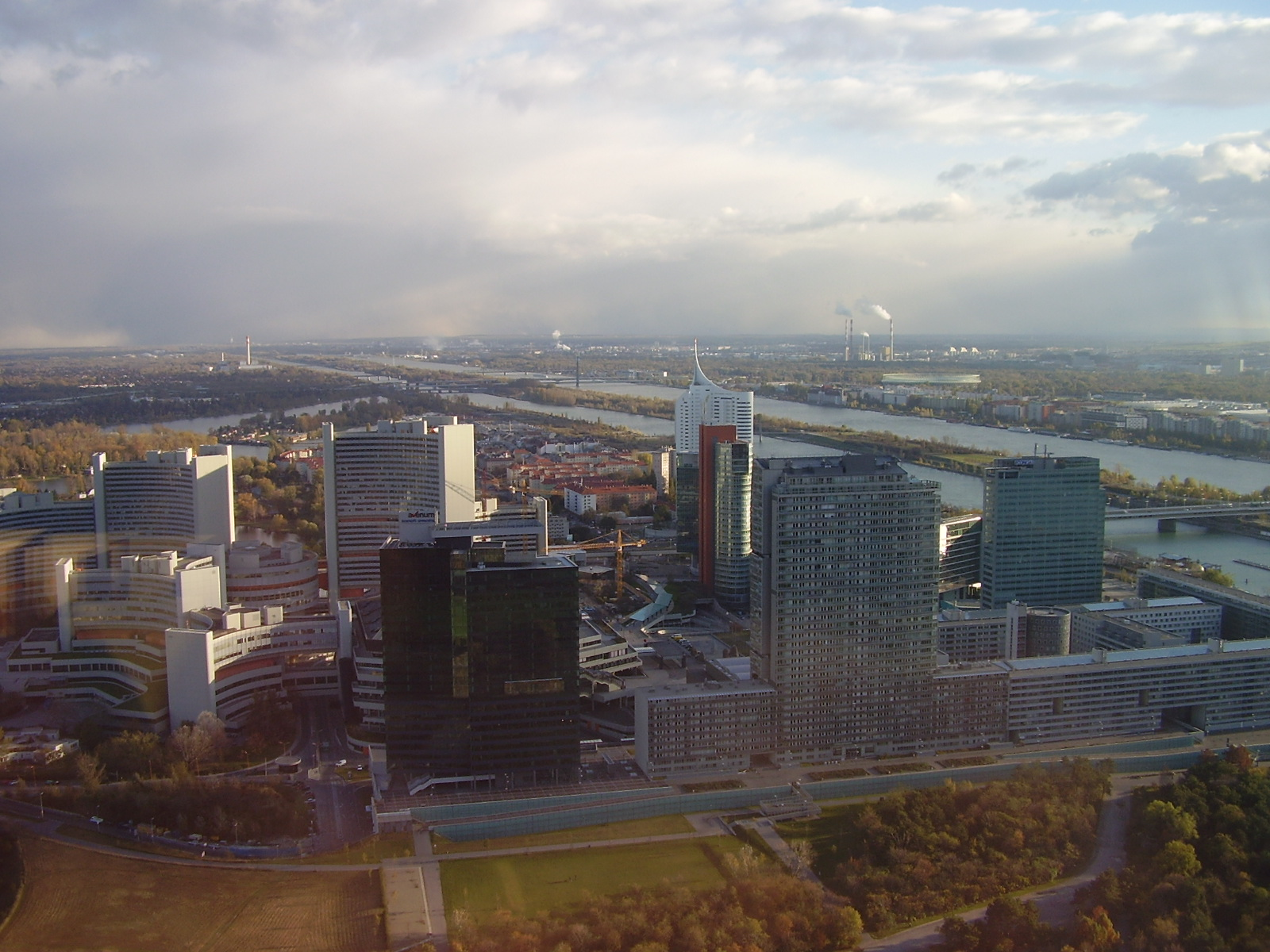 Austria, Vienna, Vienna International Centre